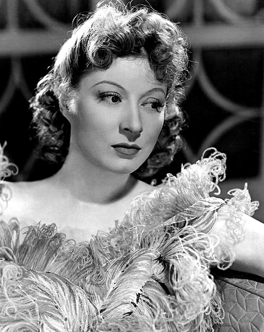 Original studio publicity photo of Greer Garson